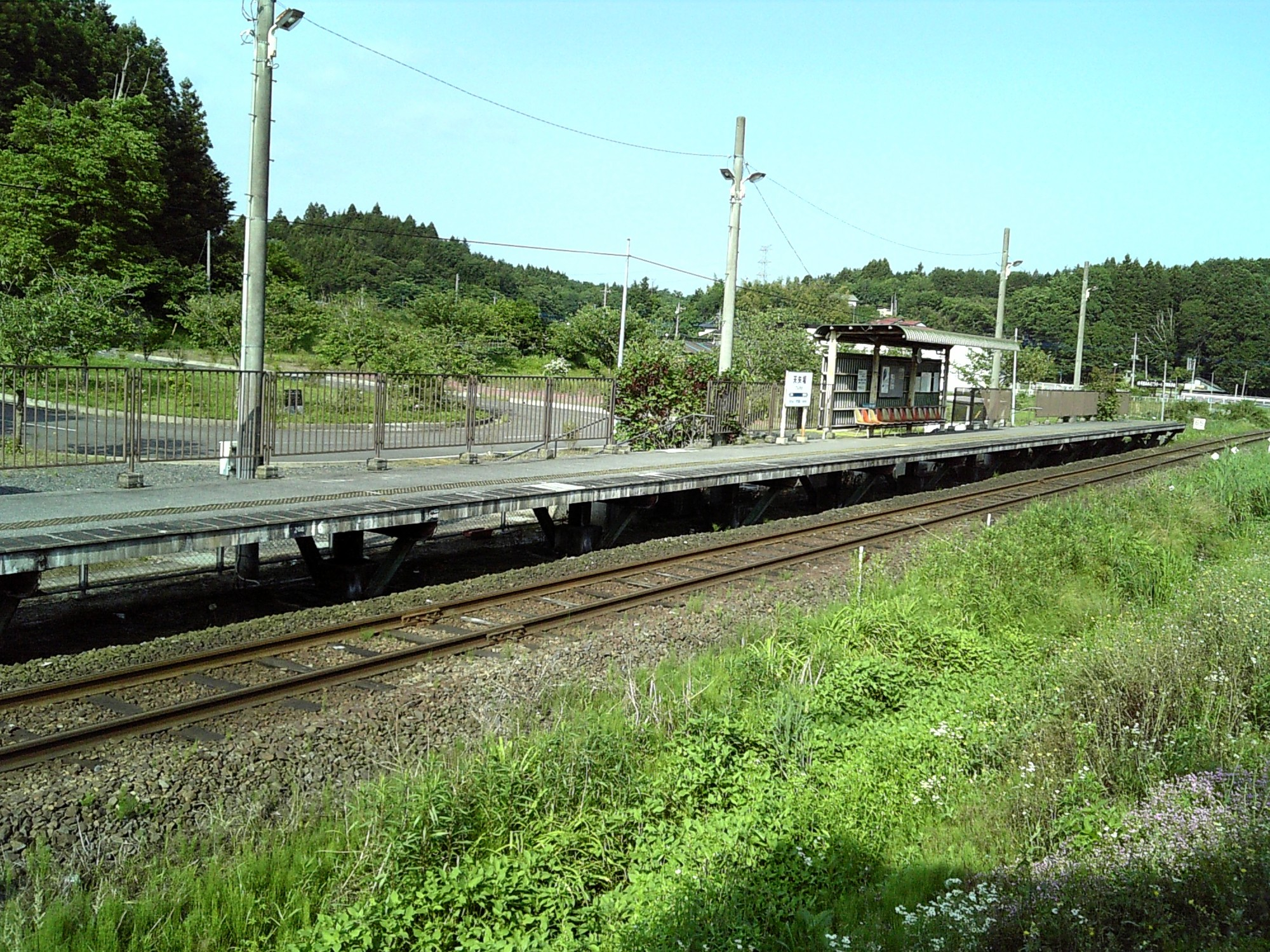 Moka Railway Moka Line Ten'yaba Station.